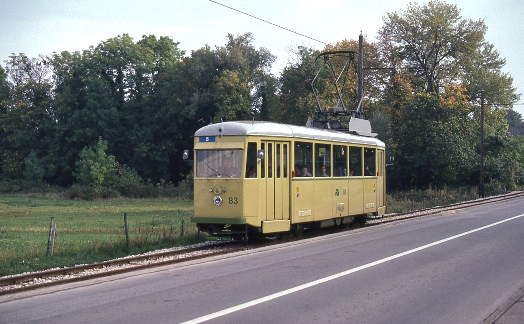 Neuchâtel tram 83 operating on line 5's former Cortaillod branch, which closed in 1984. Car 83 was one of three double-ended (bi-directional) "Swiss Standard" trams built for the Neuchâtel tram system in 1947 by SIG, numbered 81–83 (renumbered 581–583 in 1980). Car 583 (ex-83) has been preserved by the Association Neuchâteloise des Amis du Tramway (ANAT).